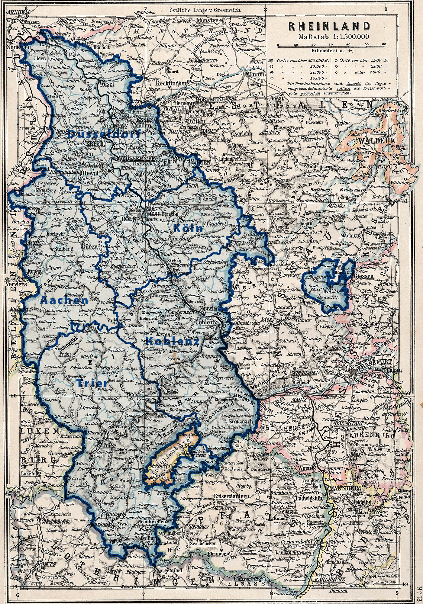 Historical map of Rheinland 1905 Source: Bibliothek allgemeinen und praktischen Wissens für Militäranwärter Band I, 1905 / Deutsches Verlaghaus Bong & Co Berlin * Leipzig * Wien * Stuttgart Author: Scan made by Kogo License: Public Domain, because copyright expired